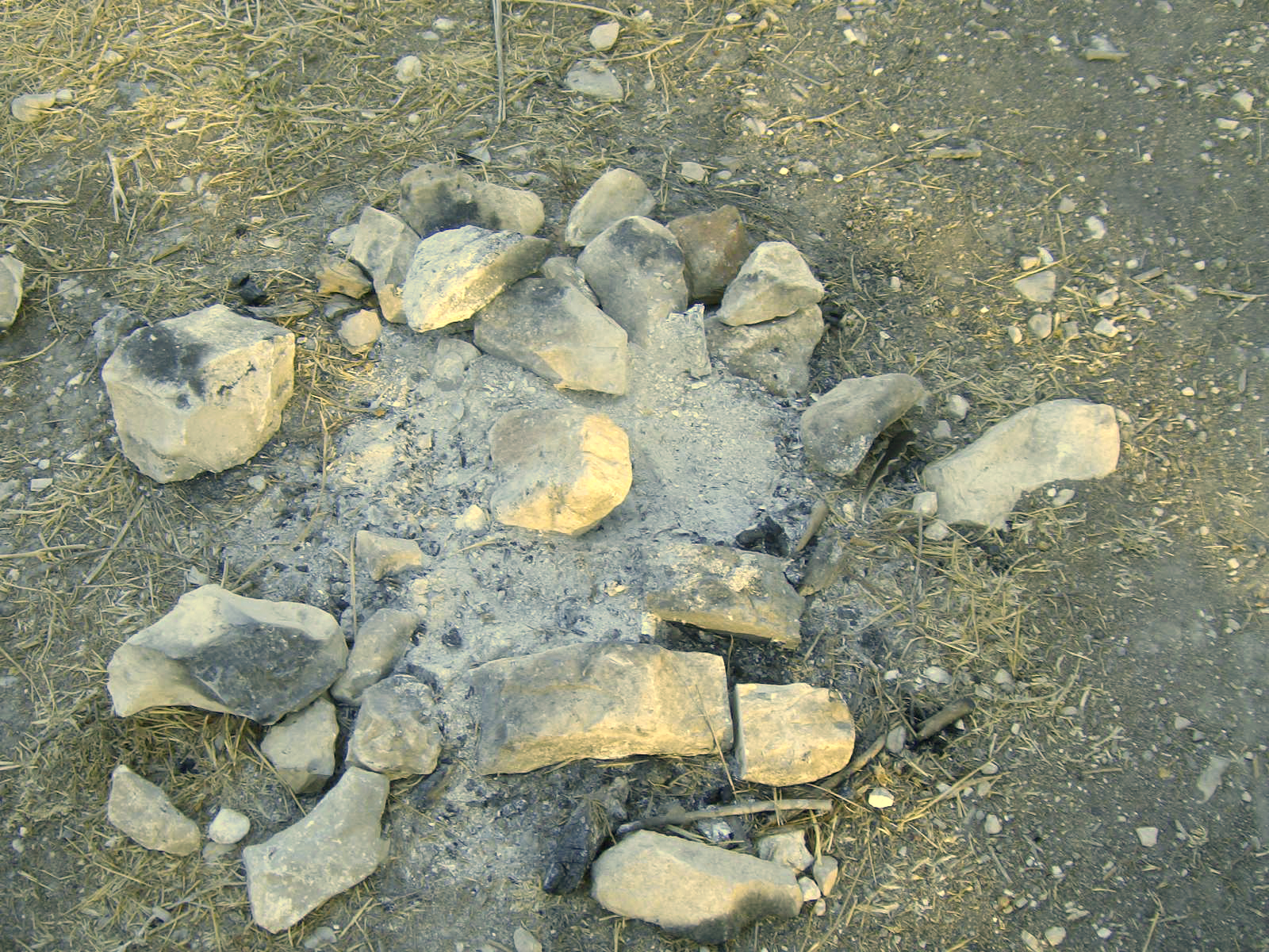 Camp fire remains at Shofet Stream, Israel